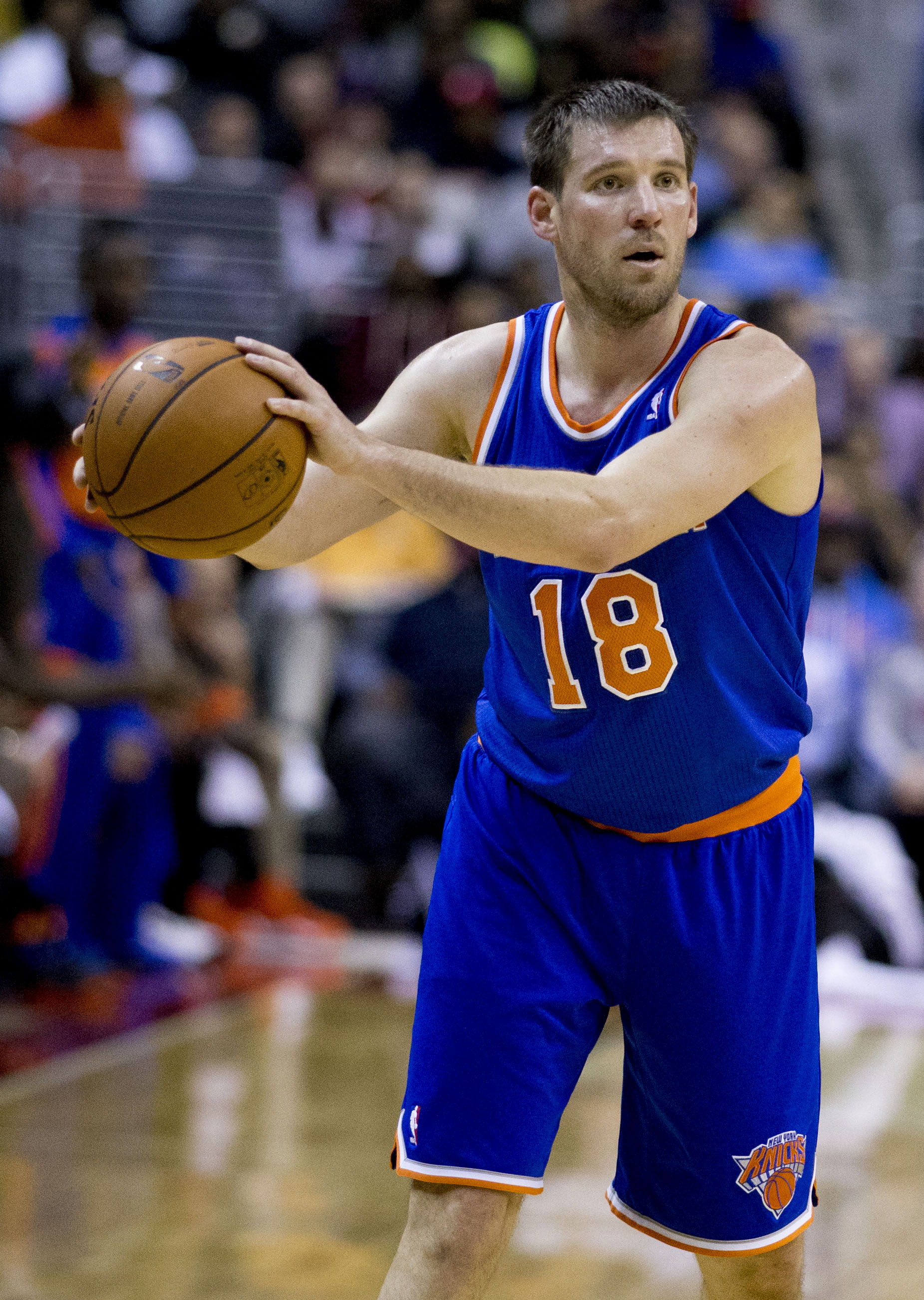 Knicks at Wizards 11/23/13